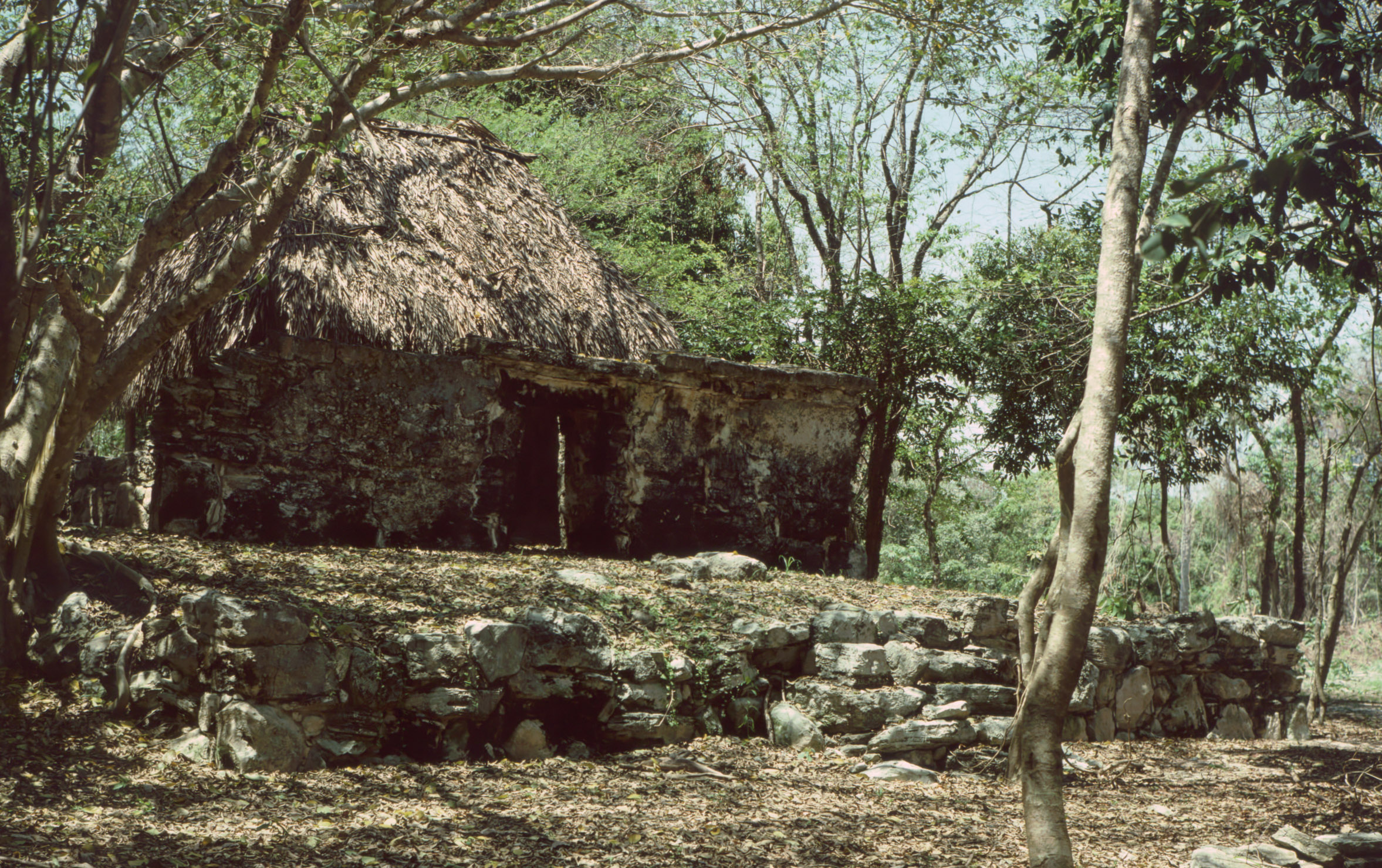 Playa del Carmen, Quintana Roo, Mexico: archaeological site